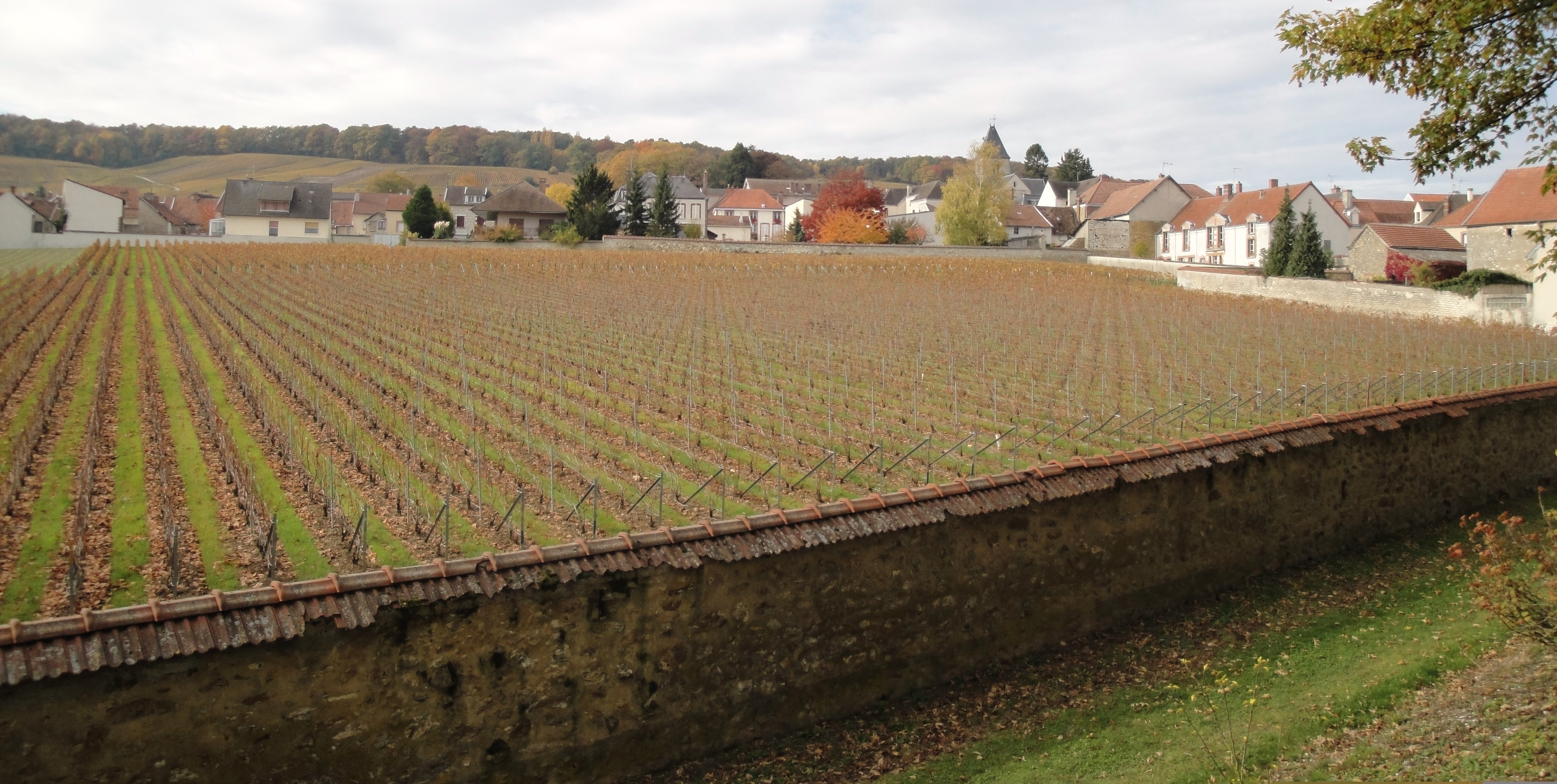 The Clos du Mesnil vineyard in Le Mesnil-sur-Oger, Côte de Blancs, Champagne. This vineyard is used to produce Krug's Clos du Mesnil Champagne.